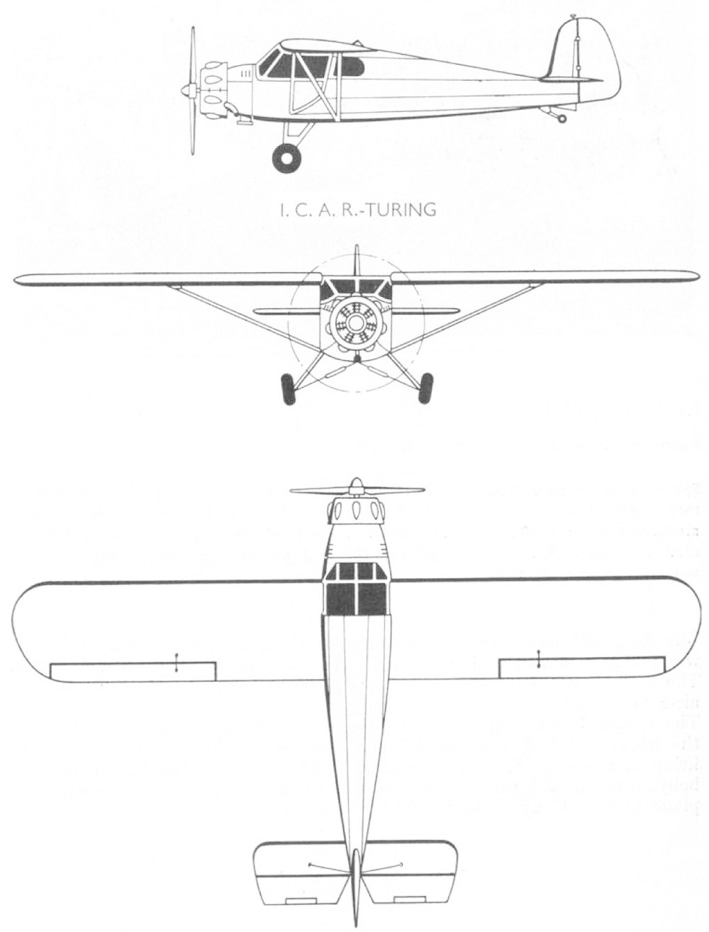 Icar plan